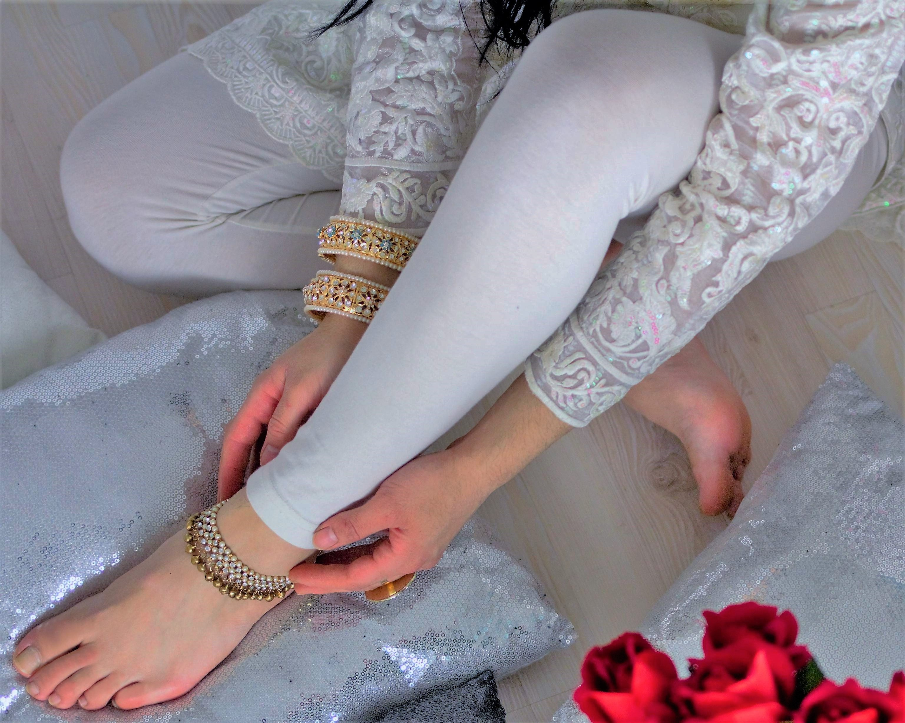 An anklet, also known as payal in subcontinent, worn by female during a photoshoot.